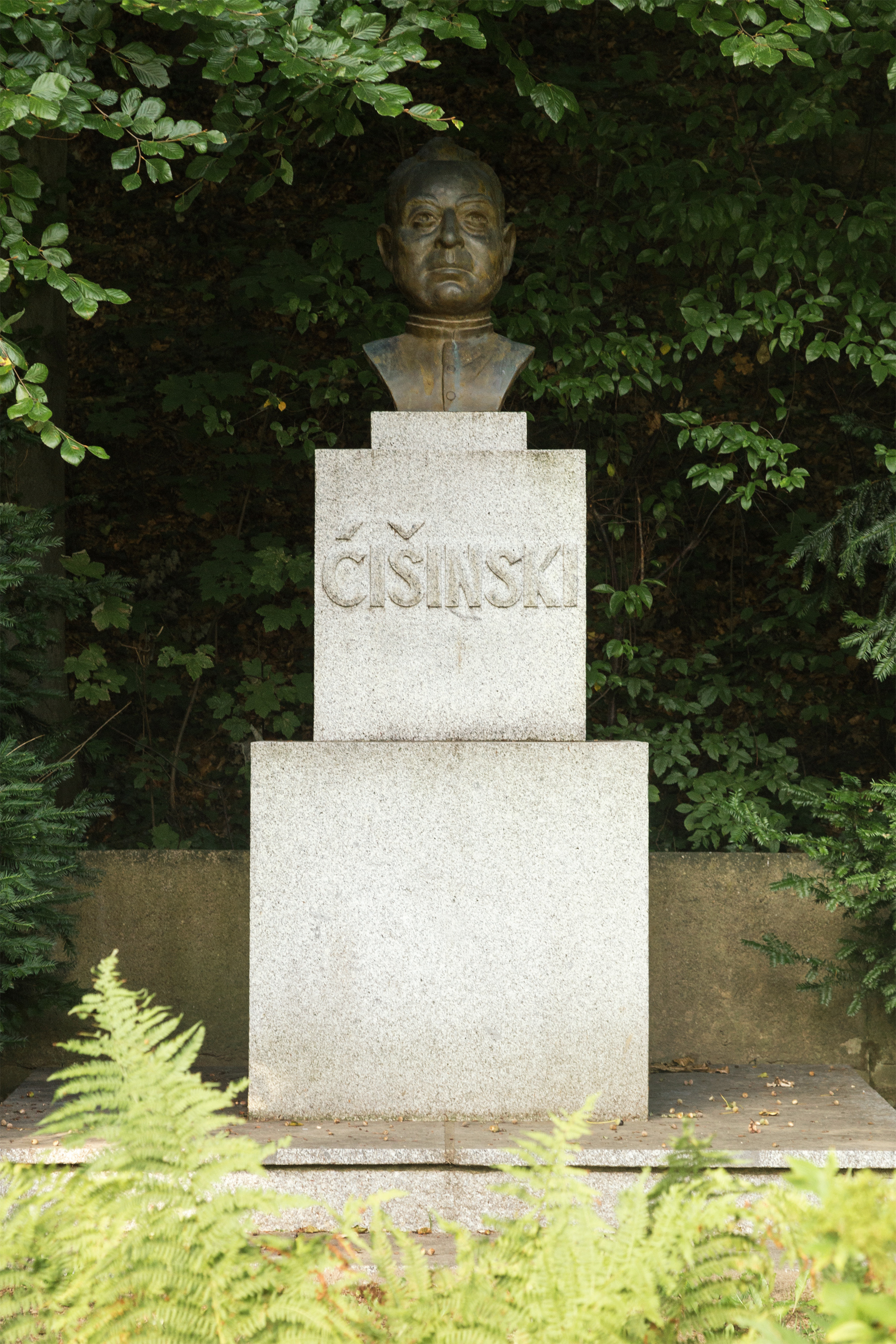 Monument to Jakub Bart-Ćišinski in Panschwitz-KuckauEsperanto: Monumento pri Jakub Bart-Ćišinski en Panschwitz-KuckauHornjoserbsce: Pomnik Jakuba Barta-Ćišinskeho w klóšterskim parku w Pančicach.